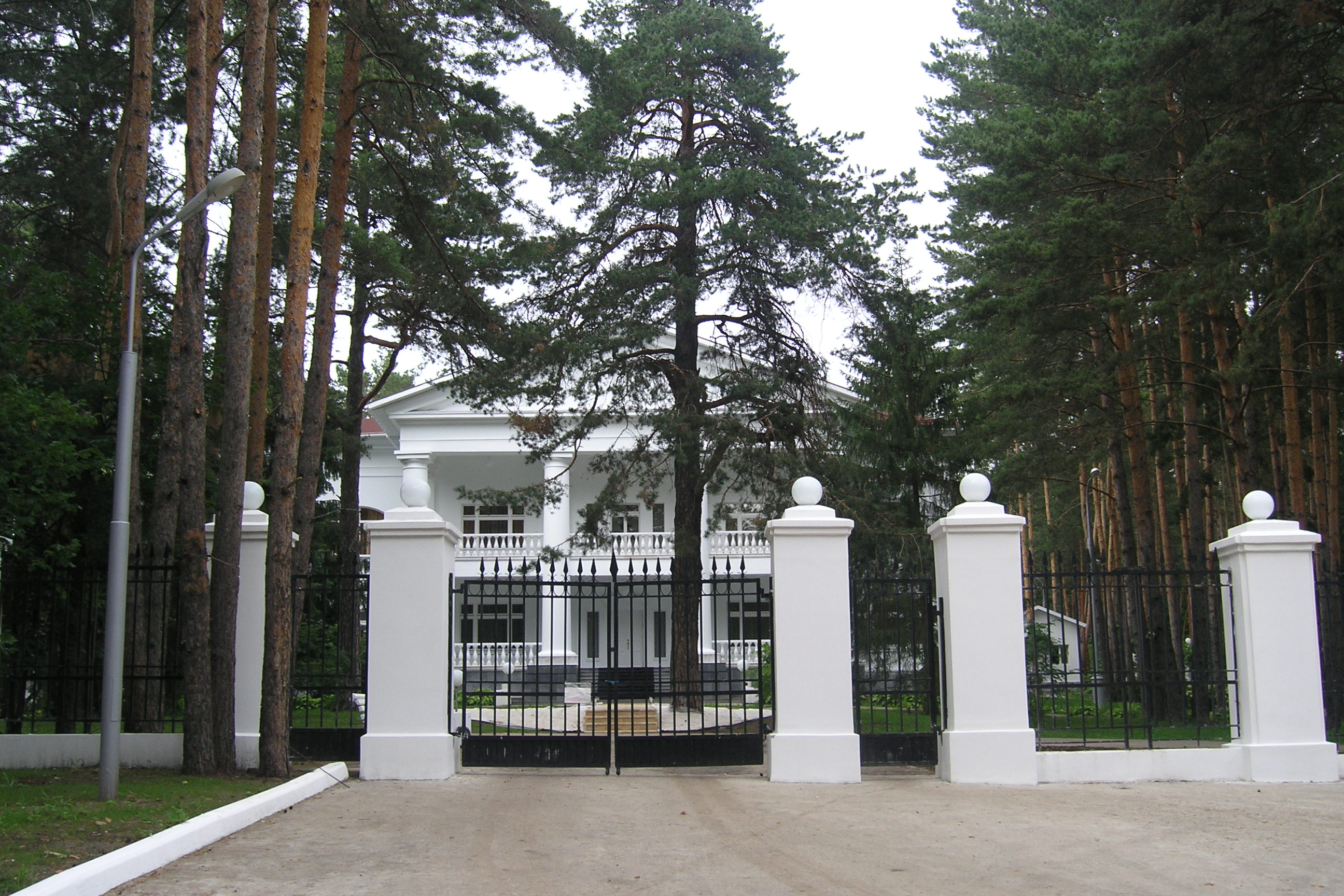 Building of ex-hotel «Belokamennaya», Portposelok, Tolyatti, Russia